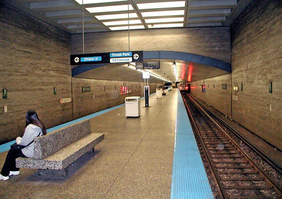 Belmont's platform achieves a spacious feeling thanks to its high, coffered ceilings and column- free environment. this view looks south on October 23, 2003 as an inbound Blue Line train leaves the station.